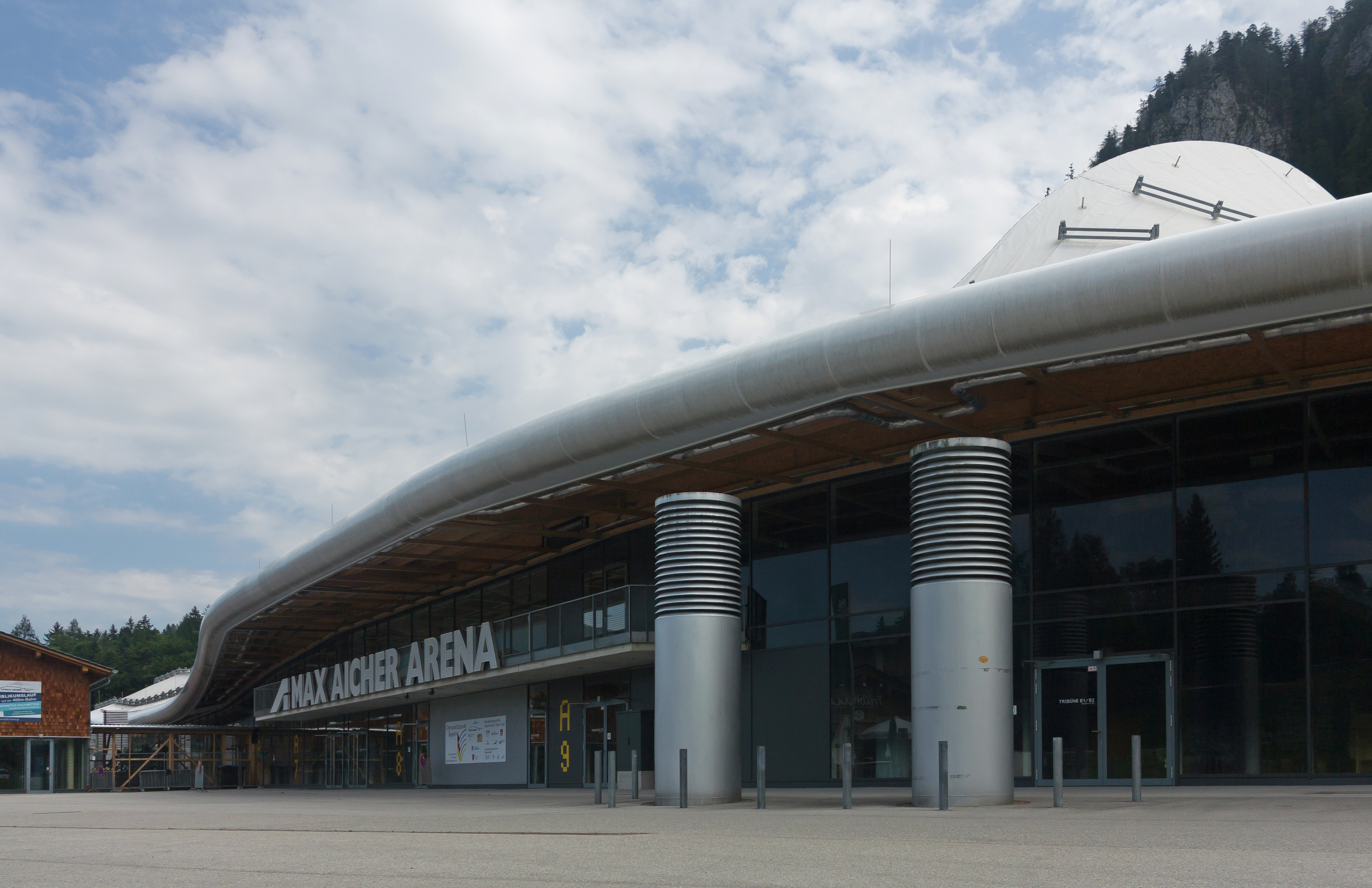 Inzell, speed skating rink: the Max Aicher Arena